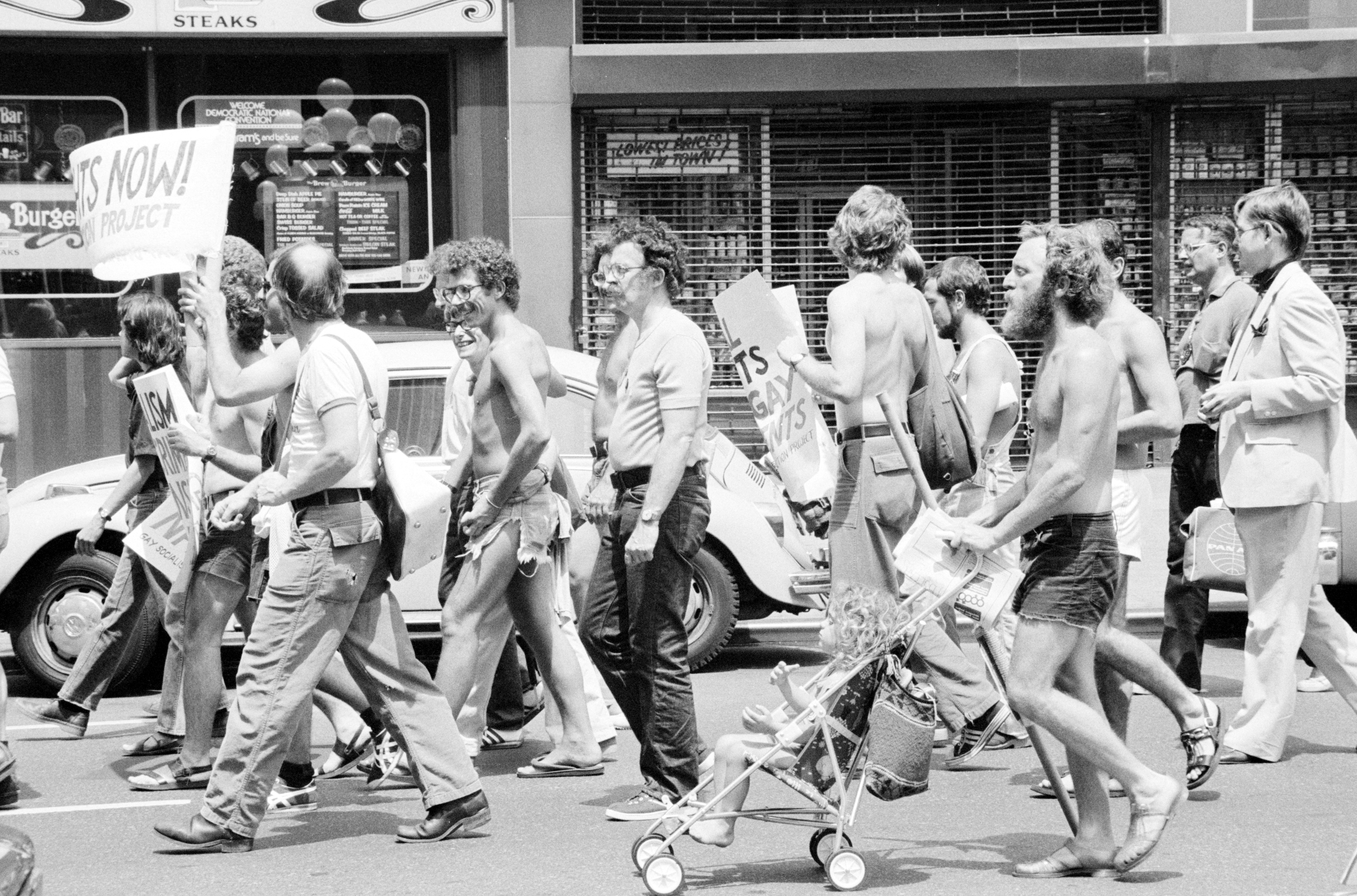 Gay rights demonstration at the Democratic National Convention, New York City